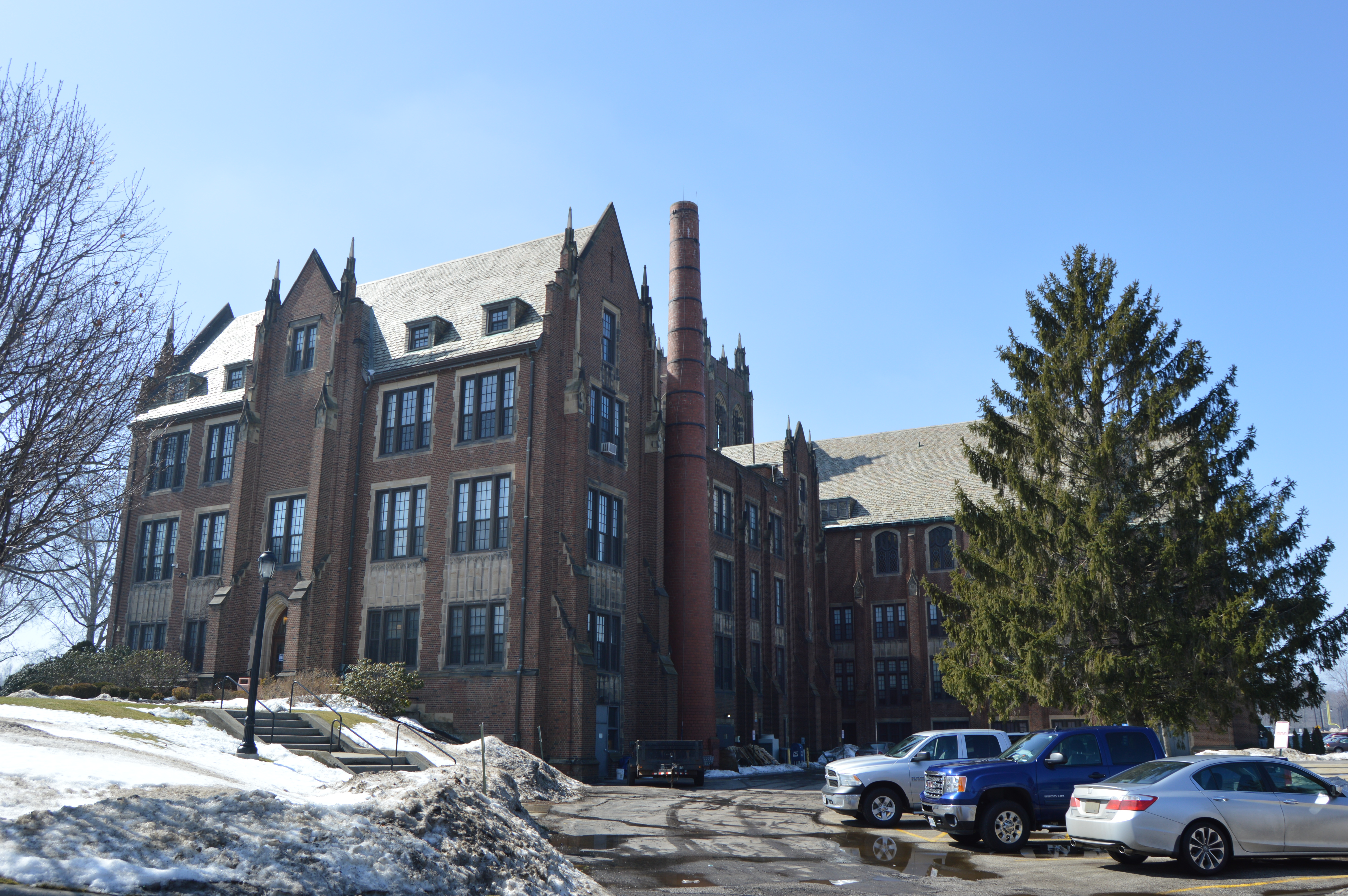 Rear of the main administration building on the campus of Notre Dame College in South Euclid, Ohio, United States. Built in 1927, it is listed on the National Register of Historic Places.